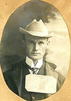 John Darlington Newcomer was an architect whose practice centered in and around Charleston, SC during the early 20th century.